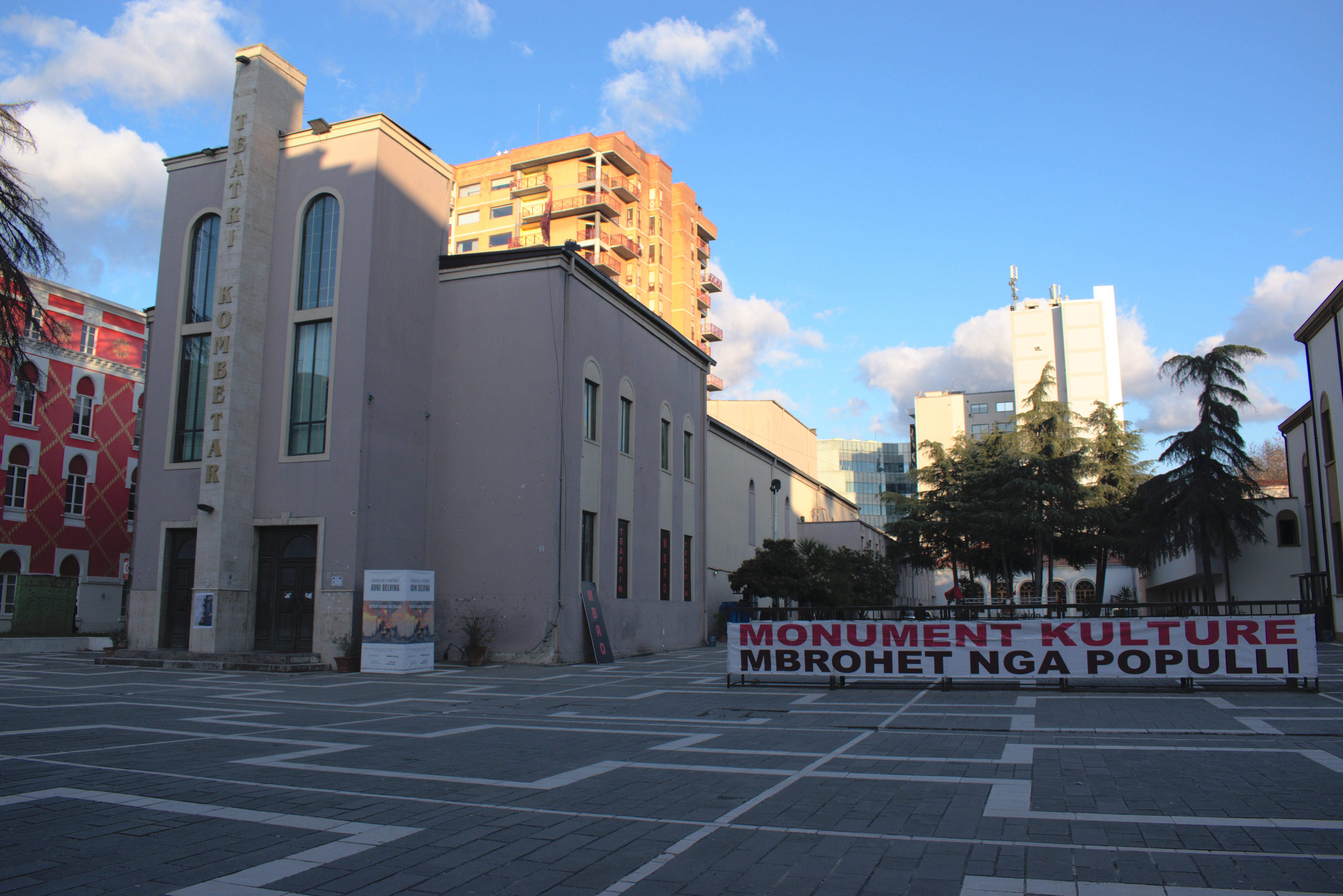 The National Theatre of Albania